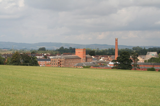 Wellington: Tonedale Mills. A new woollen factory was built here between 1801 and 1803 by Thomas Fox on the site of the town’s flour mill. Rebuilding followed a fire in 1821 and steam power was installed in 1840 – the factory was originally water-powered. Fox Brothers together with the Elworthy family, who ran further woollen mills at nearby Westford, provided employment for the majority of Wellington’s citizens. Operations at Tonedale have been scaled down in recent years